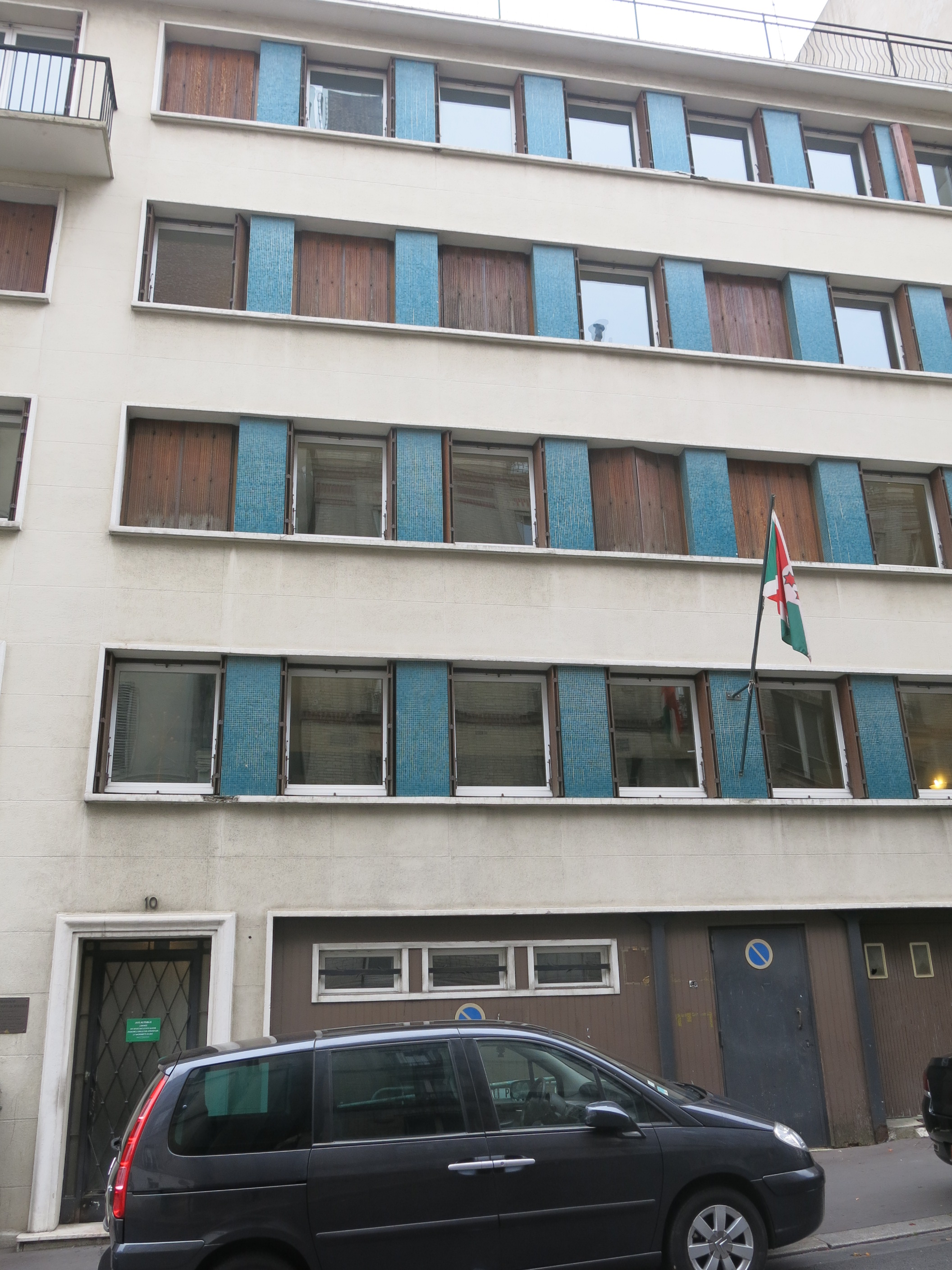 Building 10 rue de l'Orme, Paris 19th arrond. (France). In 2015, it is the embassy of Burundi.